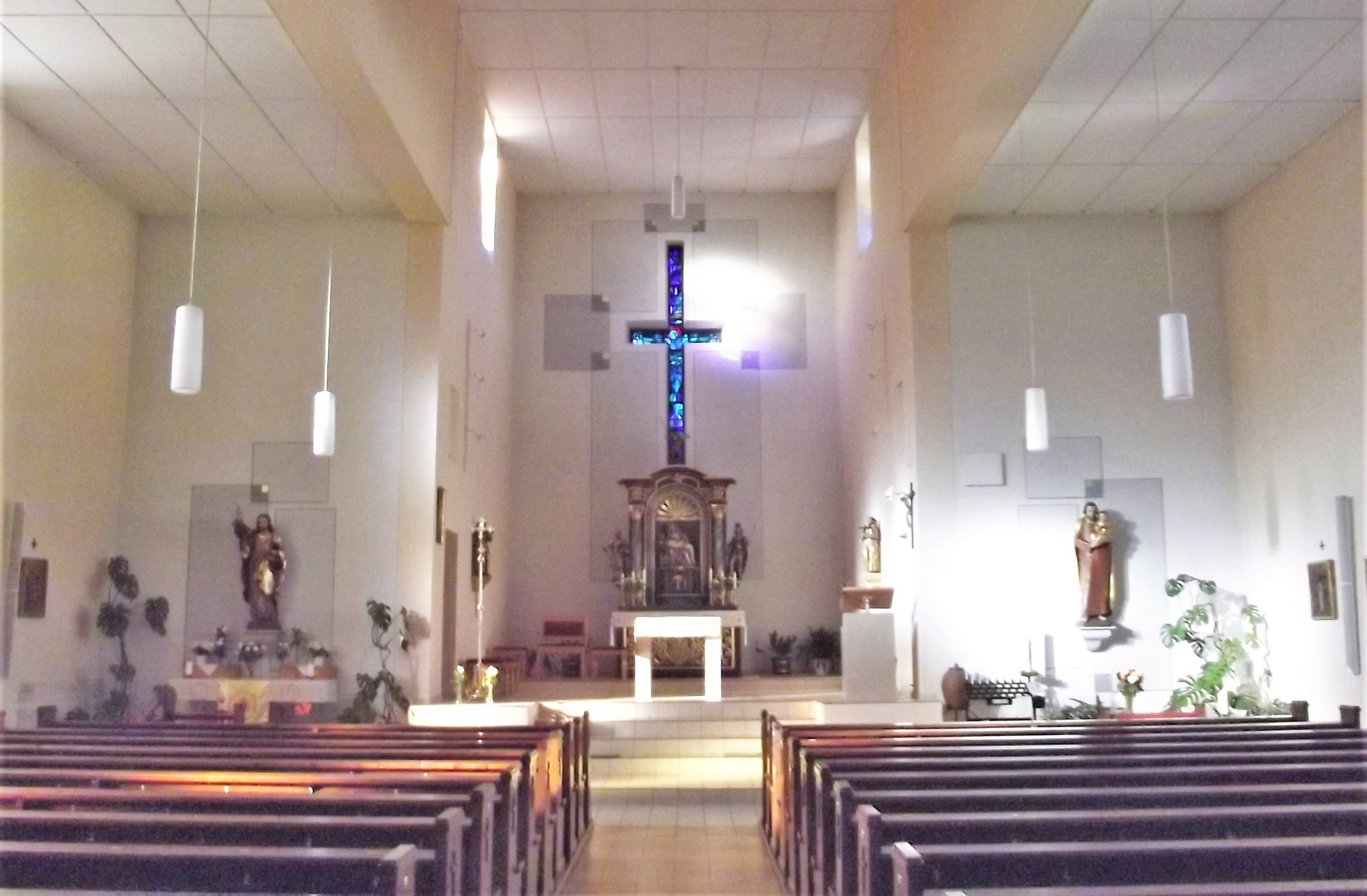 Interior of the roman catholic church in Michelbach, Saarland